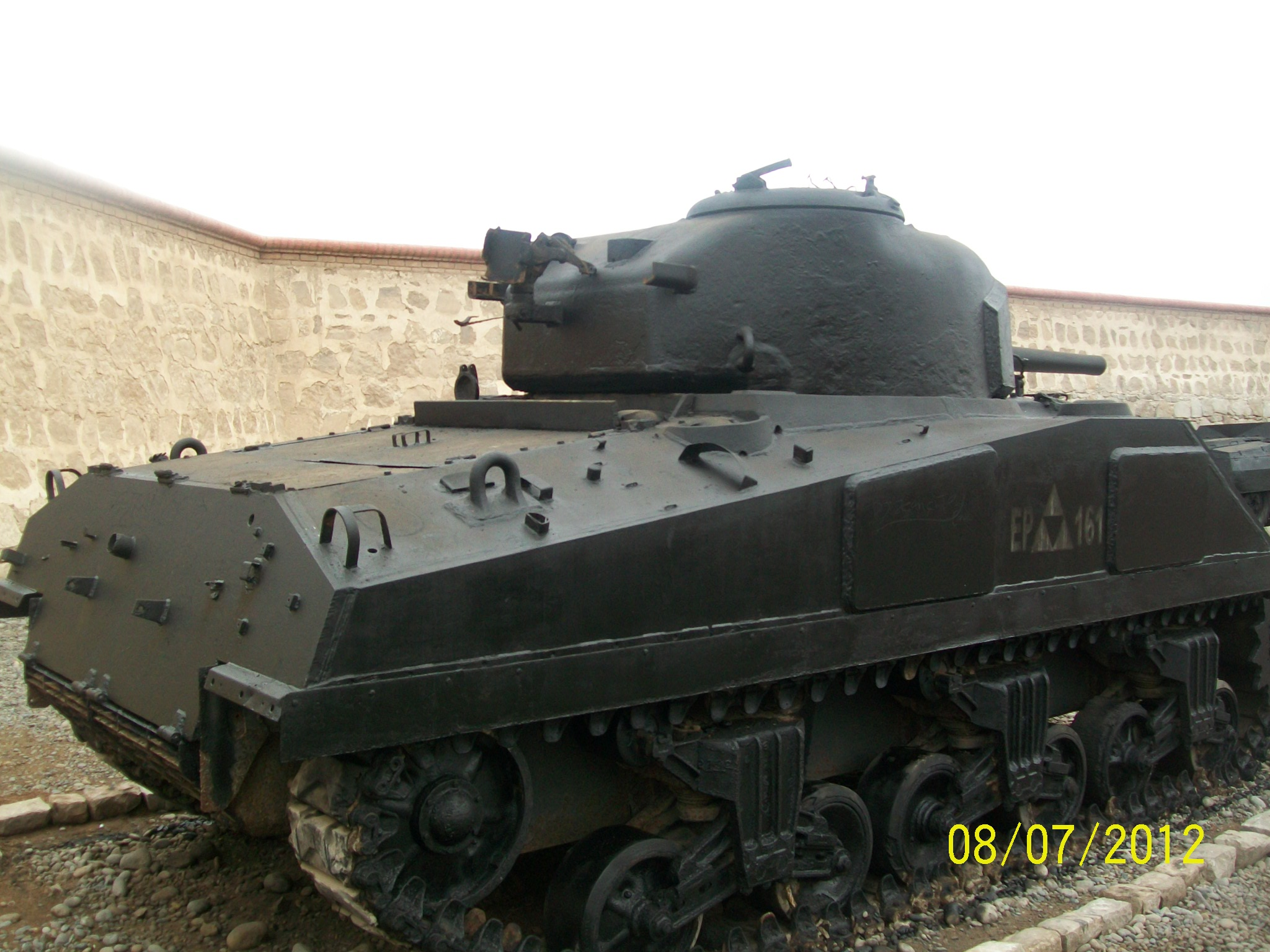 Peruvian M4A3 Sherman tank preserved at the Real Felipe Fortress.